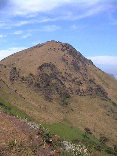 ಮುಳ್ಳಯನಗಿರಿ ಶಿಖರ: ಸಂಪಿಗೆ ಶ್ರೀನಿವಾಸ, ಬೆಂಗಳೂರು Mullayanagiri Picture by Sampige Srinivasa, Bengaluru. ಮುಳ್ಳಯನಗಿರಿ ಕರ್ನಾಟಕದ ಅತ್ಯಂತ ಎತ್ತರದ ಶಿಖರ. ಇದು ಹಿಮಾಲಯ ಮತ್ತು ನೀಲಗಿರಿ ಶ್ರೇಣಿಗಳ ಮಧ್ಯದ ಅತ್ಯಂತ ಎತ್ತರದ ತುದಿ ಕೂಡ ಆಗಿದೆ. This is the tallest peak in Karnataka and the Highest point between Himalayas and Nilgiris.